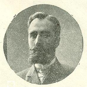 Portrait